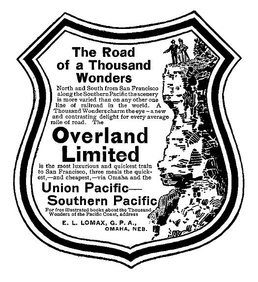 Magazine display advertisement for the "Overland Limited" (Omaha - San Francisco) operated by the Union Pacific RR and Southern Pacific RR (c1900)